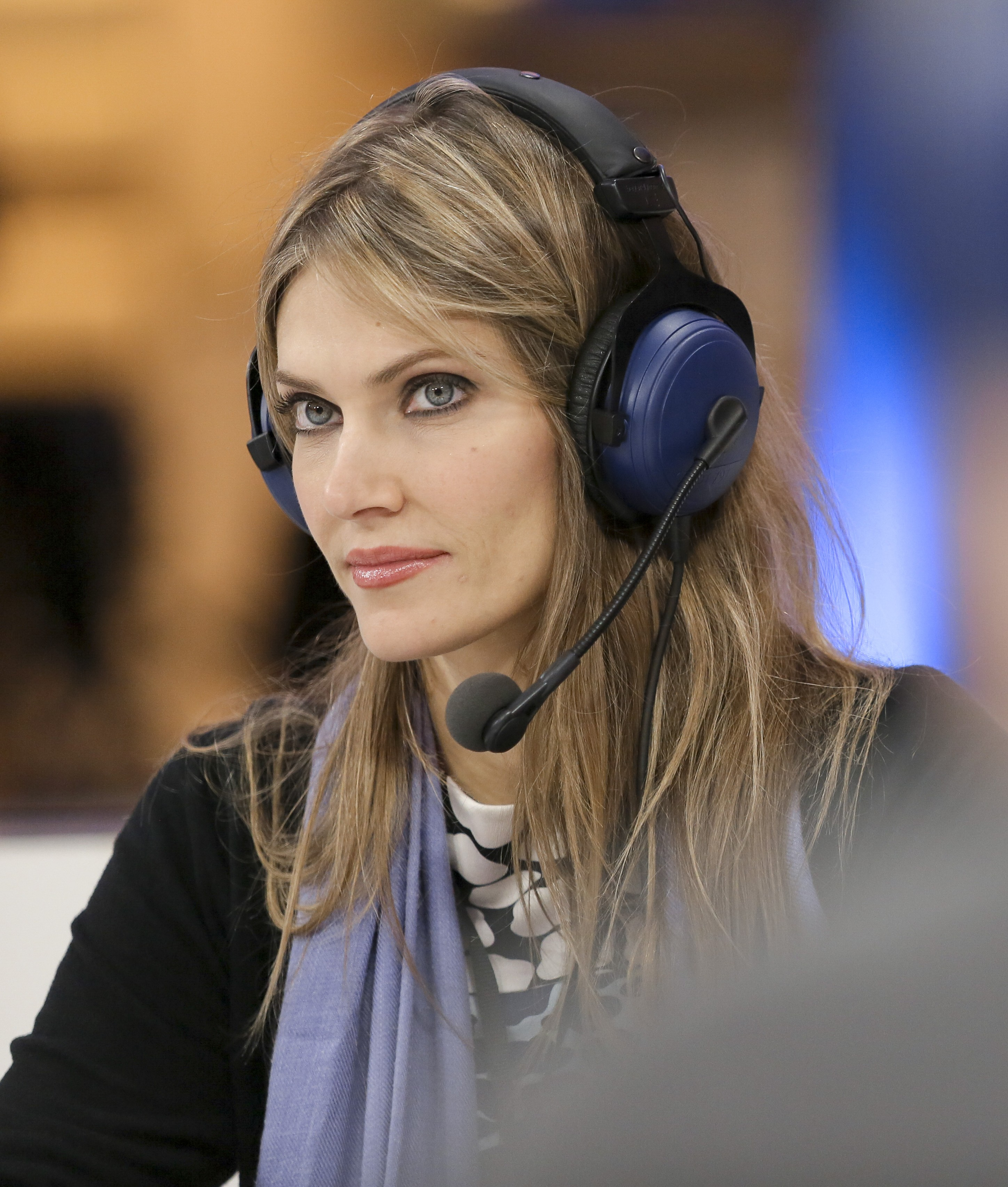 Euranet Plus, the leading radio network for EU news, hosted a Citizens’ Corner live debate on fighting corruption in the EU at the European Parliament in Brussels on December 2, 2014. The debate was jointly produced by Euranet Plus and Skaï Radio, Greece, member of the Euranet Plus network, and was moderated by journalist Stavros Samouilidis from Skaï Radio (in Greek) and Brian Maguire from the Euranet Plus News Agency in Brussels (in English). The debate also featured students from the Euranet Plus campus radio network. The debate was broadcast live at the top of this web page. You are invited to comment on the debate on our Facebook page event page or on Twitter using the hash tag #CitizensCorner. Part 1 | Greek | 12h30 – 13h15 CET | moderator Stavros Samouilidis | guests: - Maria SPYRAKI, MEP, Greece, Group of the European People’s Party - Eva KAILI, MEP, Greece, Group of the Progressive Alliance of Socialists and Democrats - Georgios KATROUGKALOS, MEP, Greece, Confederal Group of the European United Left – Nordic Green Left - Miltiadis KYRKOS, MEP, Greece, Group of the ProgressiveAlliance of Socialists and Democrats - George DASSIS, President of the Workers’ Group of the European Economic and Social Committee (EESC) Get more details, soundbites and the video recording of the debate at